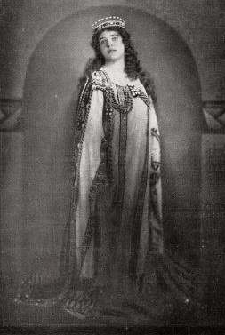 German opera singer Lotte Lehmann (1888-1976) in Richard Wagner's Tannhäuser